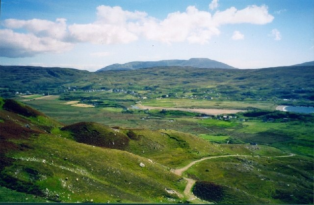 Gleann Cholm Cille. The view of Gleann Cholm Cille from Cionn Ghlinne.